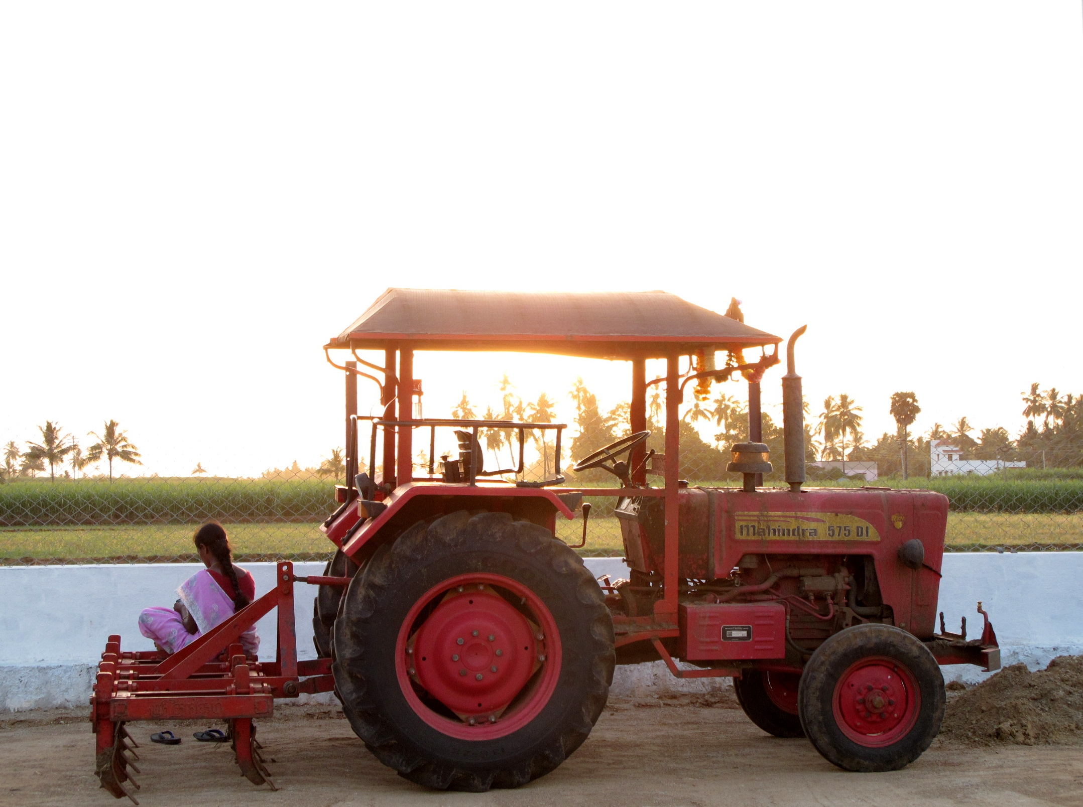 Mahindra 575 Di -Tamil girl watching sunset at a village sugar cane field and palm trees sitting barefoot in pink Sari on a red tractor - Tamil Nadu village gas station with her mobile phone - myindiaexperience -feature story photo